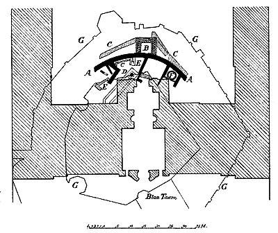 Foundation remnants of Absolons Castle from 1166/1167. Sketch made after excavation in 1907.